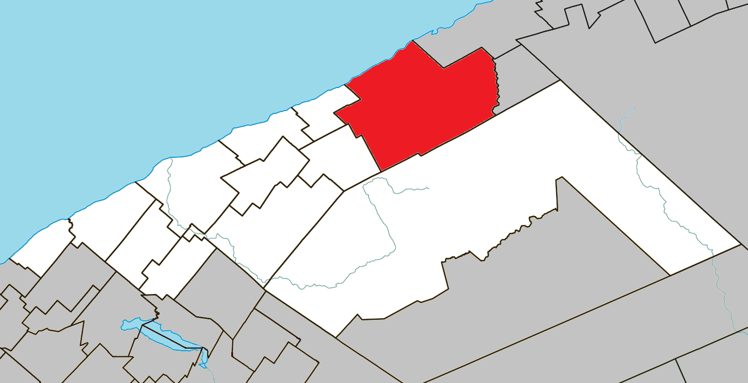 Location of Les Méchins, Quebec within Matane Regional County Municipality.